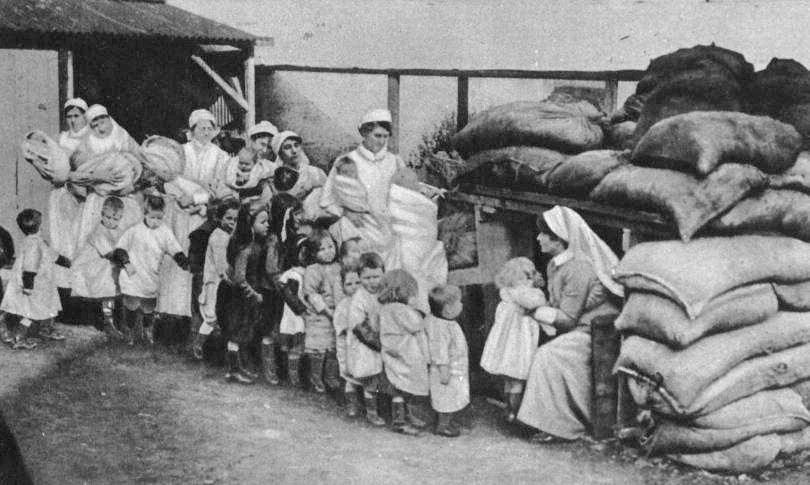 Nurses and Children during an air raid rehearsal in 1918.